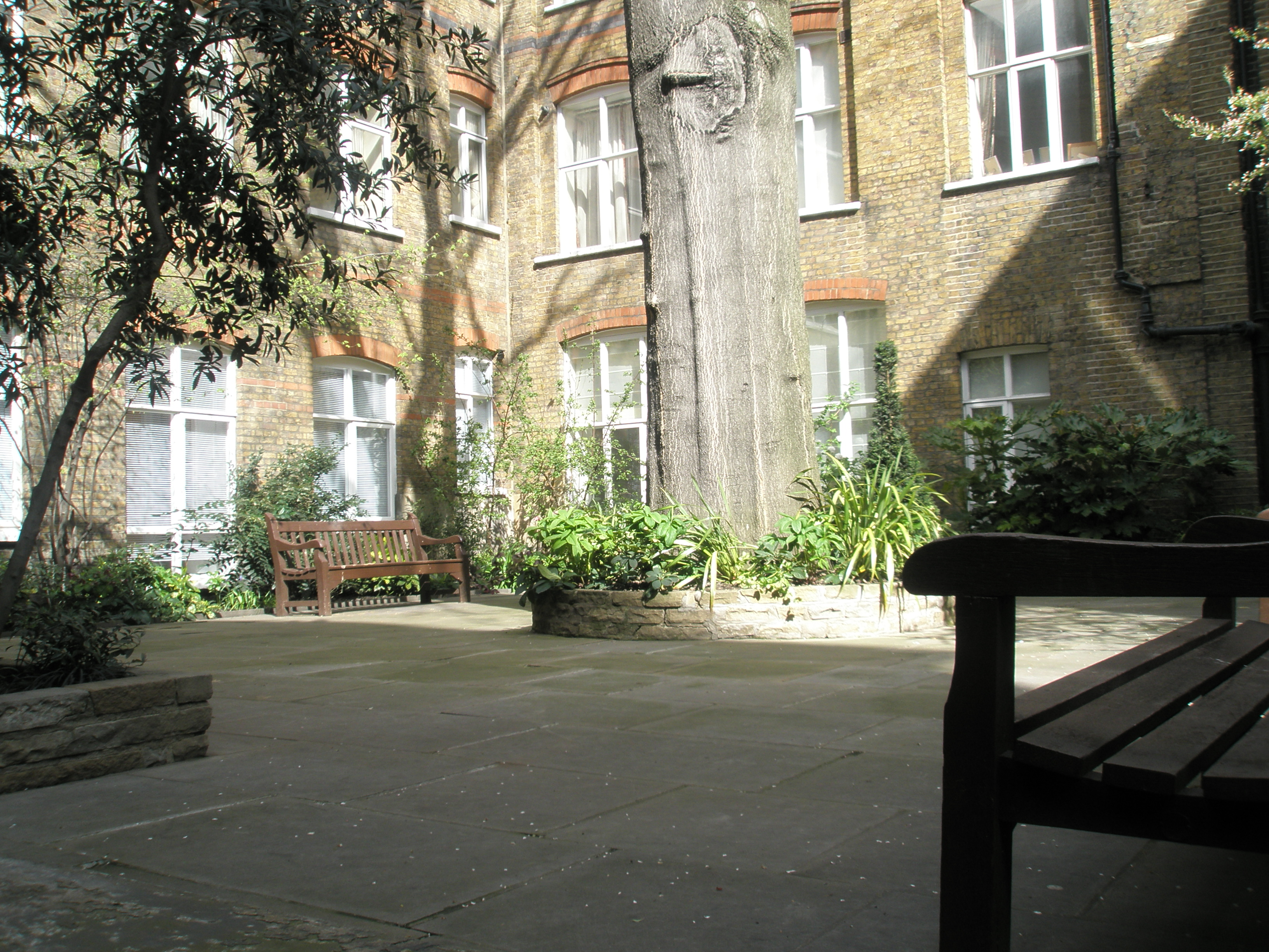 St Ann Churchyard